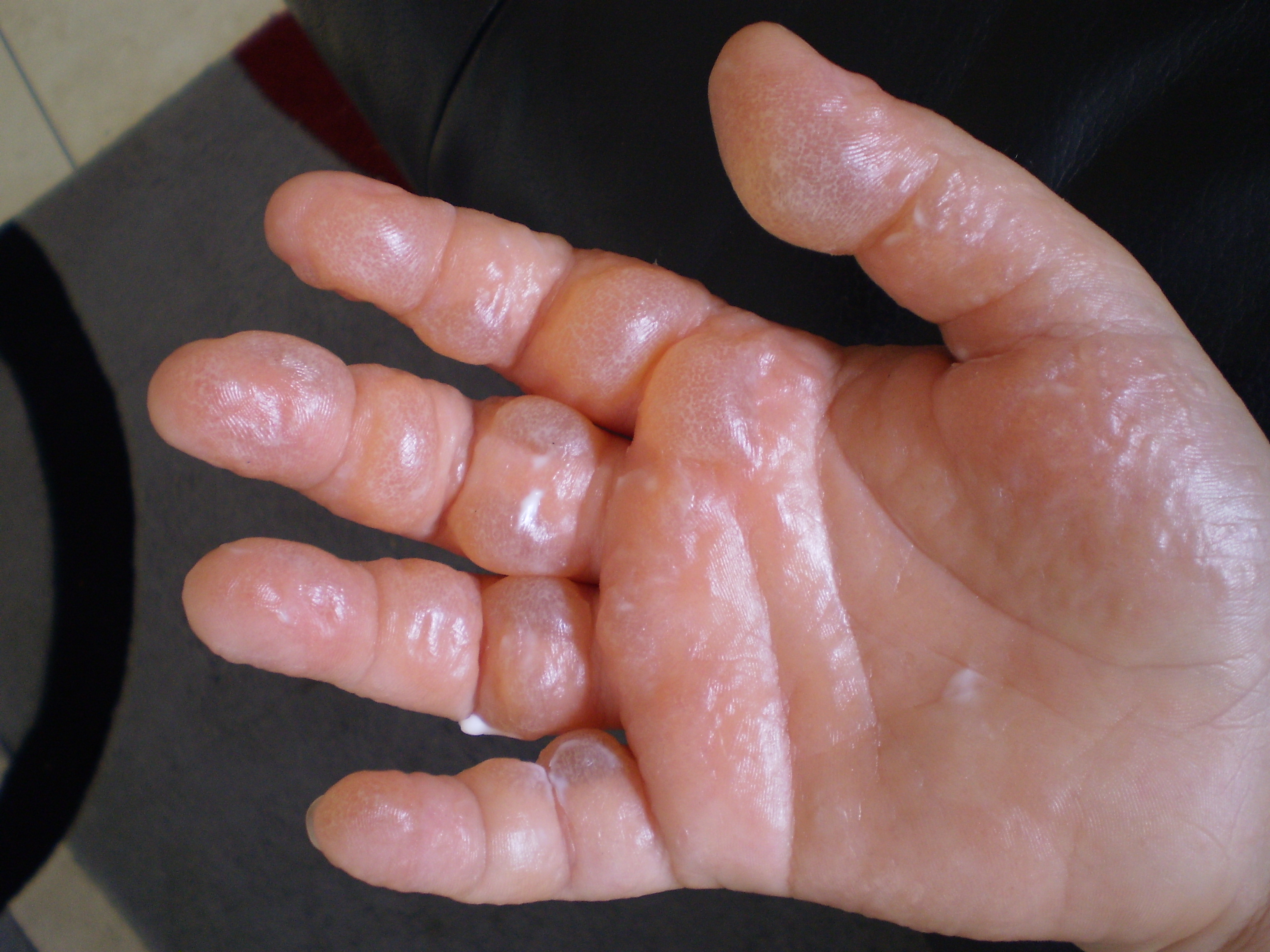 A sever case of Phytophotodermatitis.